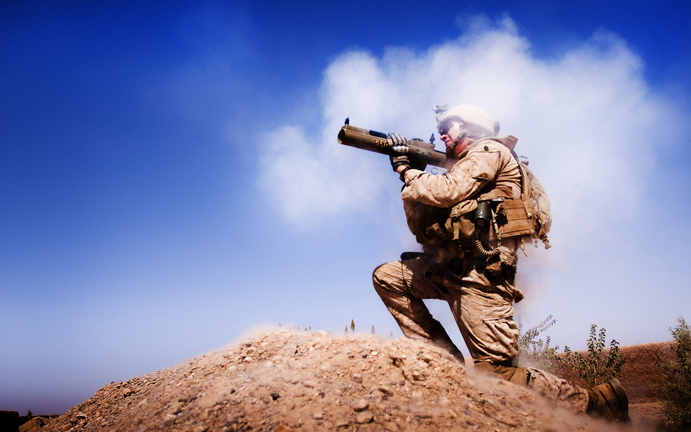 Gunnery Sgt. Chris Denham, the company gunny for India Company, 3rd Battalion, 3rd Marine Regiment, watches as the rocket from his light anti-tank weapon closes in on a compound used by enemy fighters during a firefight in Trek Nawa, Afghanistan, while participating in Operation Mako, Sept. 21, 2010. “The only thing louder than the back blast of the rocket was the Marines cheering,” said Capt. Francisco X. Zavala, the India Company commander. Mako was a one-day clearing mission to disrupt enemy activity.